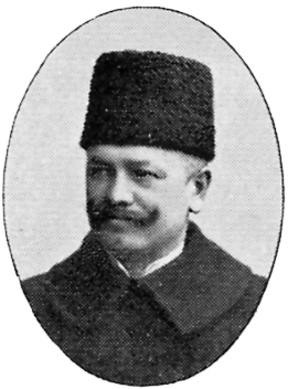 Image scanned from the book "Svenskt Porträttgalleri XX - Arkitekter, Bildhuggare, Målare m.fl. " ("Swedish Portrait Gallery XX - Architects, Sculptors, Painters, ") published 1901